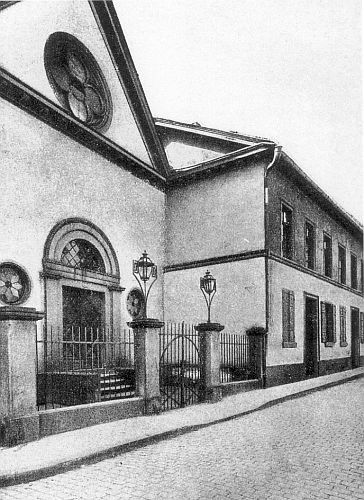 Orthodox synagogue in the Rheinstrasse of Bingen-am-Rhein; looted by the nazis in 1938. Photo of 1905